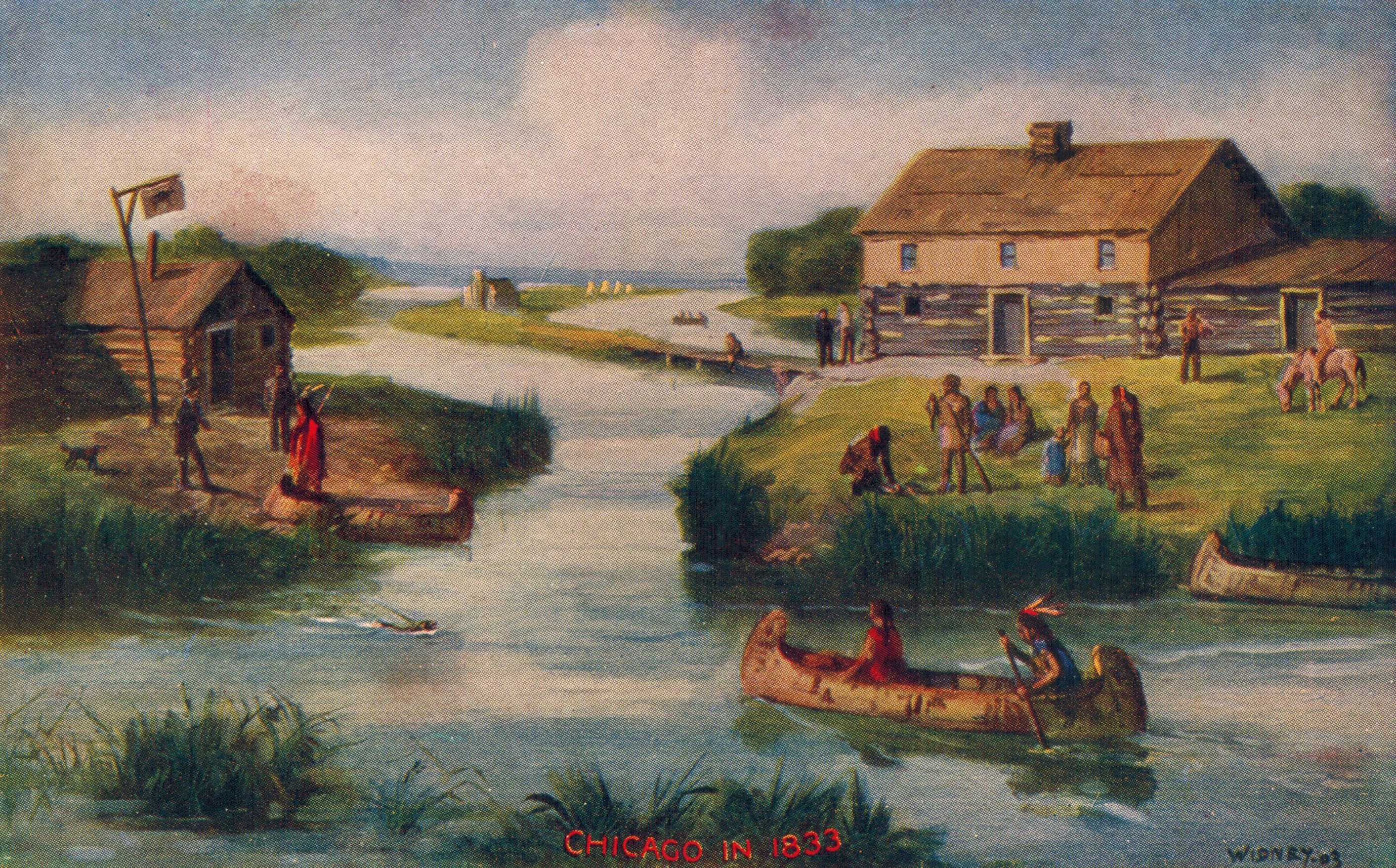 Chicago in 1833 - V.O. Hammon Publishing Co. Chicago (Front)